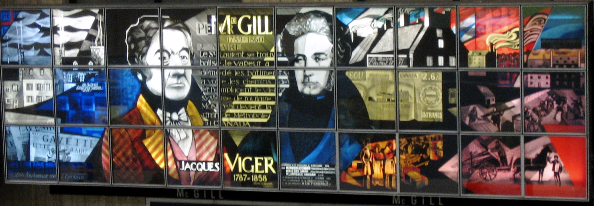 Stained glass, McGill metro station, Montreal. Third of five pieces from East to West.